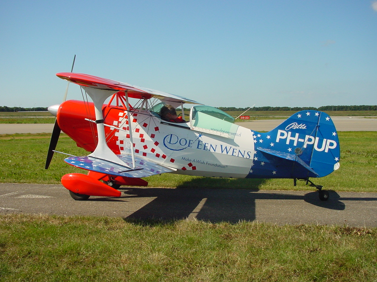 Pitts Special S1S PH-PUP